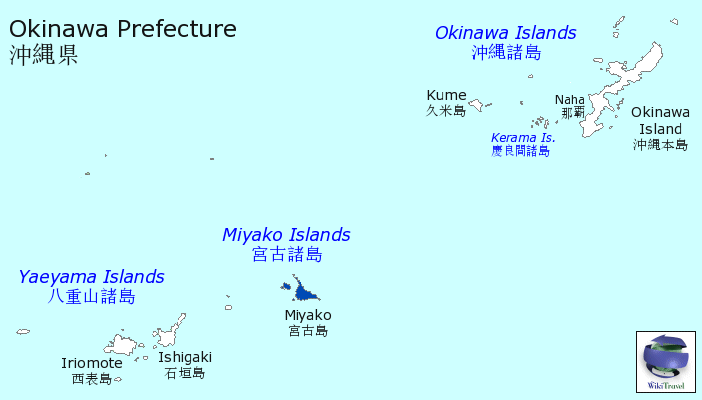 The location of Miyakojima City in Okinawa.